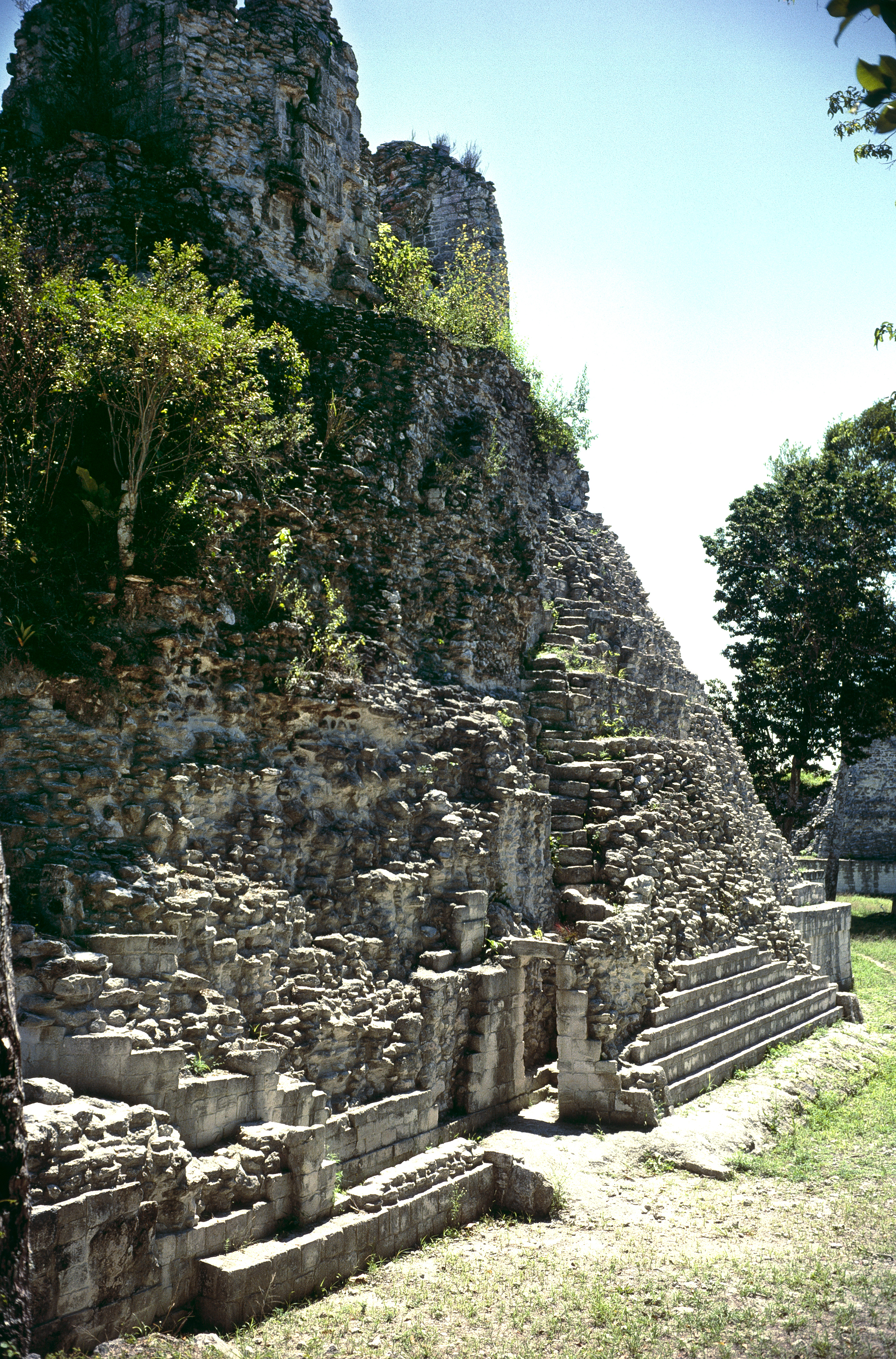 Becan, Campeche, Mexico: Building IV, west side